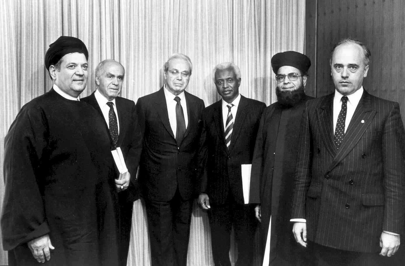 UN Secretary-General Javier Pérez de Cuéllar (third from left) meeting at United Nations Headquarters with an international peace delegation for an end to the Iran–Iraq War: Dr. Hans Koechler, President of I.P.O. (right), Shah Ahmad Noorani Siddiqui, Pakistan (second from right), Field Marshal Abdul Rahman Sowar Al-Dahab, former Head of State of Sudan (third from right), Dr. Murad Ghaleb, Secretary-General of the Afro-Asian People's Solidarity Organisation (second from left), and Mousa Al-Mousawi, Iran (left) (New York, 16 June 1988)